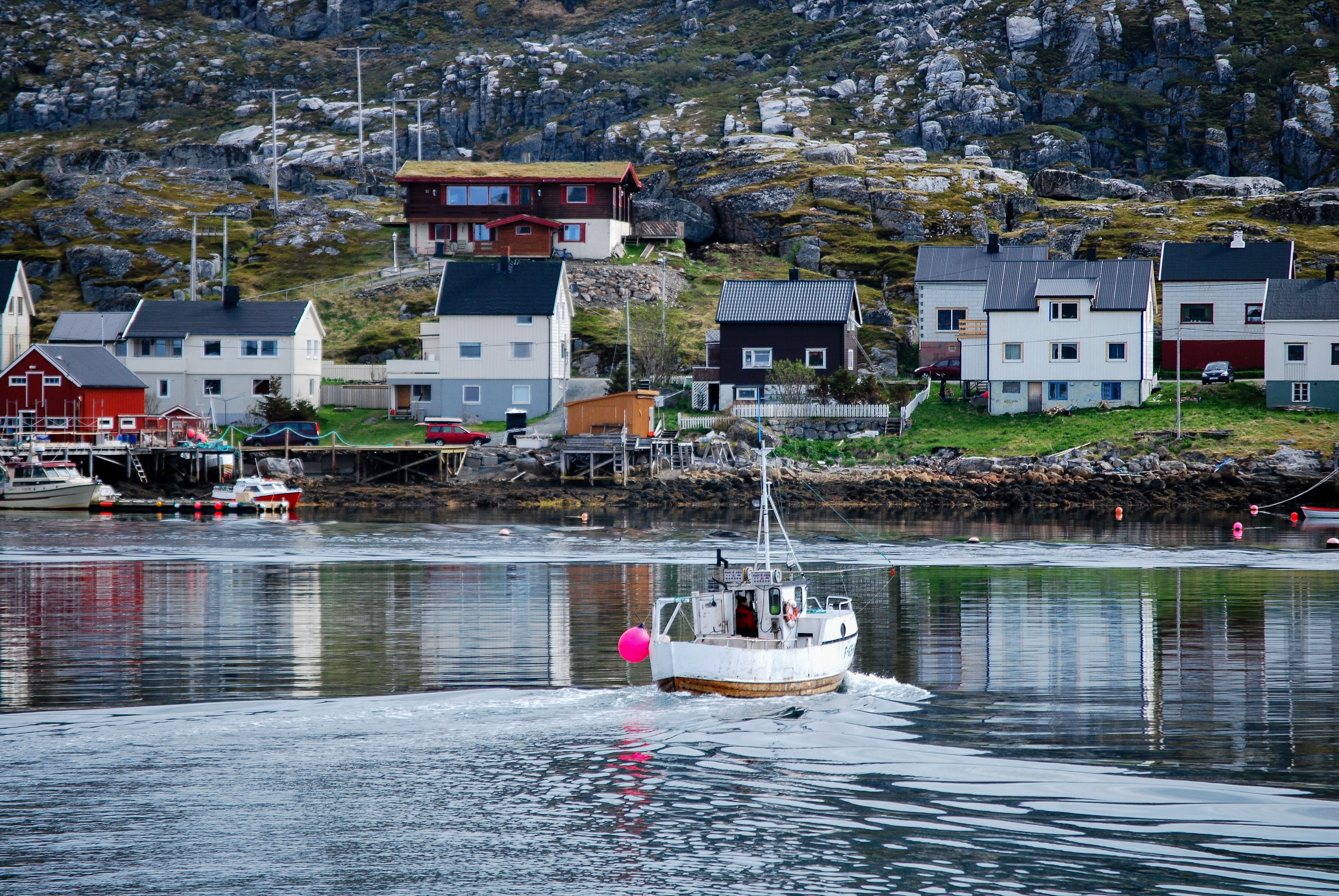 Traditional wooden-hulled fishing boat coming into the village harbor in Gjesvær, Norway on June 7, 2011.